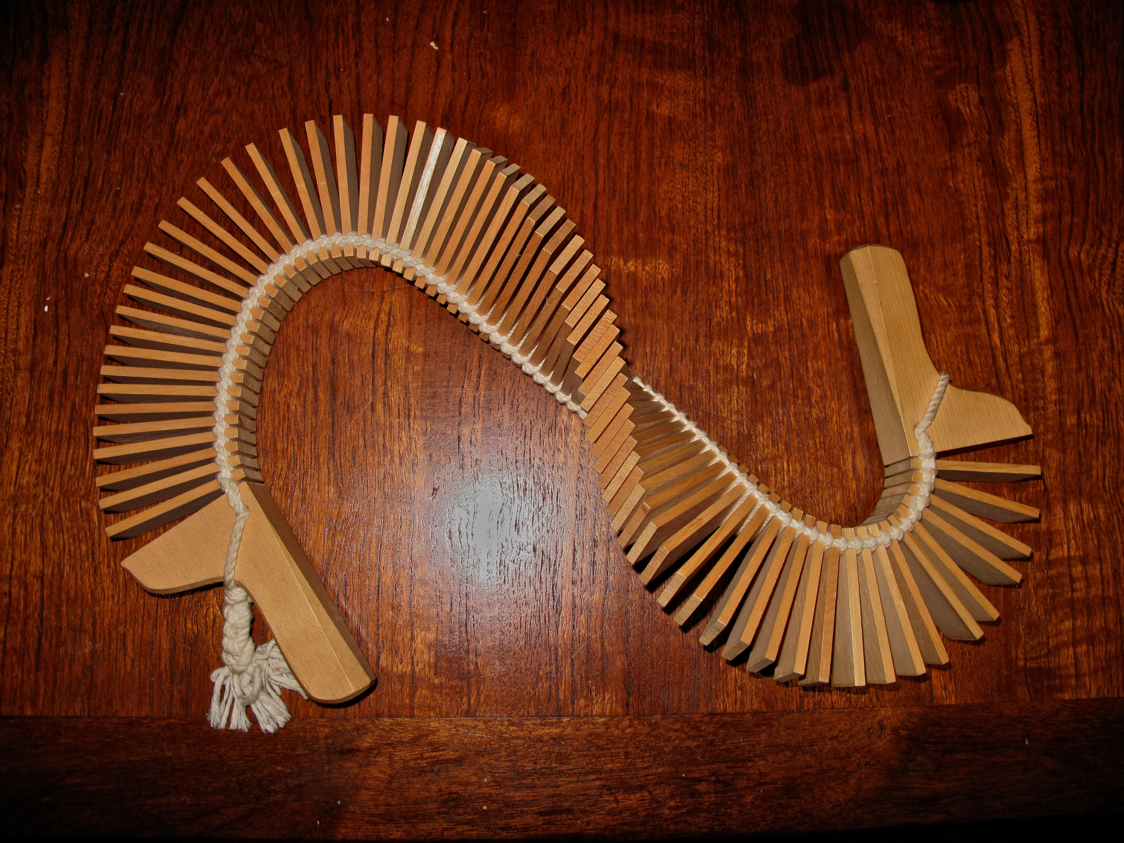 Binzasara - Bin-zasara - Binsasara - Bin-sasara